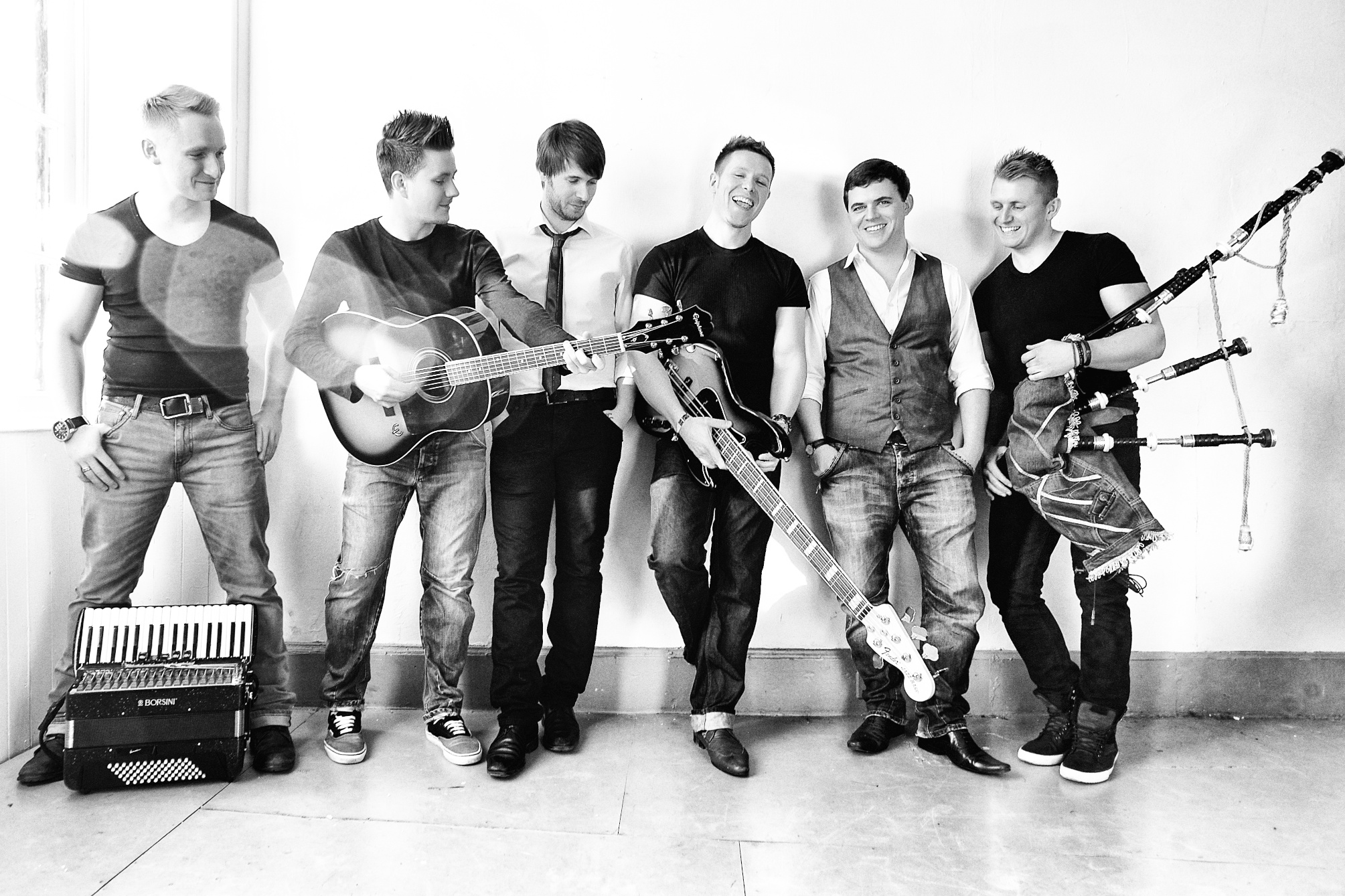 Promo shot of Skerryvore